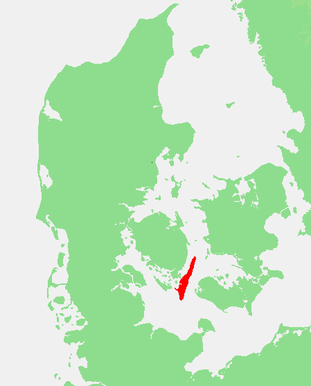 Locator map of Langeland